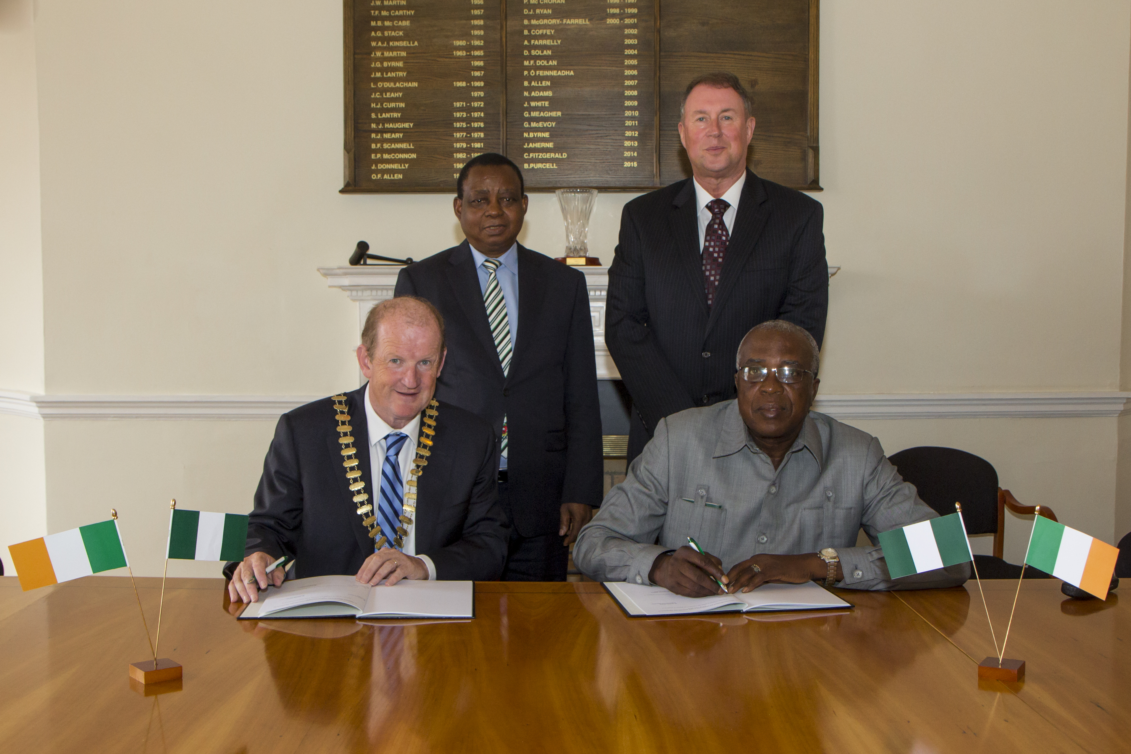 Back (l to r): Sunday Aniogor Ekune, Chief Executive of ANAN and Eamonn Siggins, Chief Executive of CPA Ireland Front (l to r): Brian Purcell, President of CPA Ireland and Anthony Chukwuemeka Nzom, President of ANAN